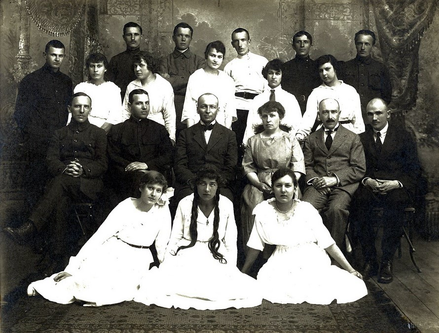 Graduates of 2nd graduation in Belarusian gymnasium in Vilna (now Vilnius), 1921. Published in Vilna (Vilnius).